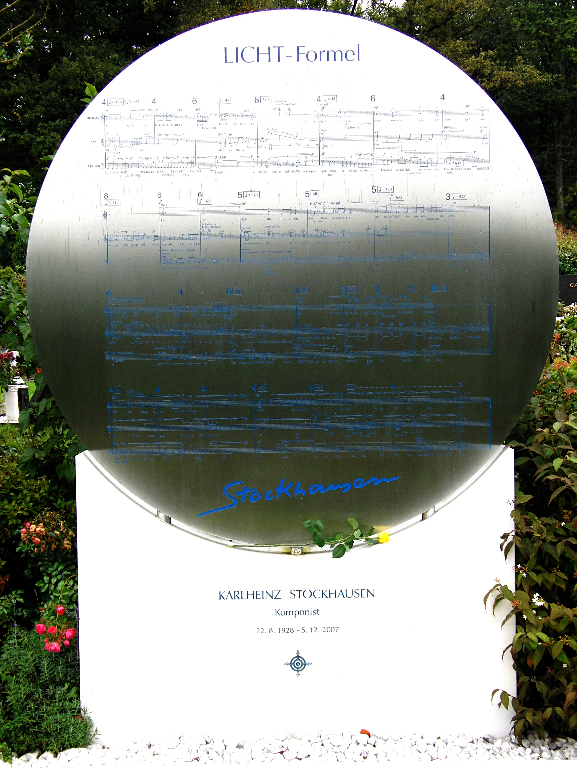 Stockhausen - Grave with Licht - Formel from opera cycle 'Licht' (1977 - 2003), in the Waldfriedhof graveyard of Kürten, in September 2012.